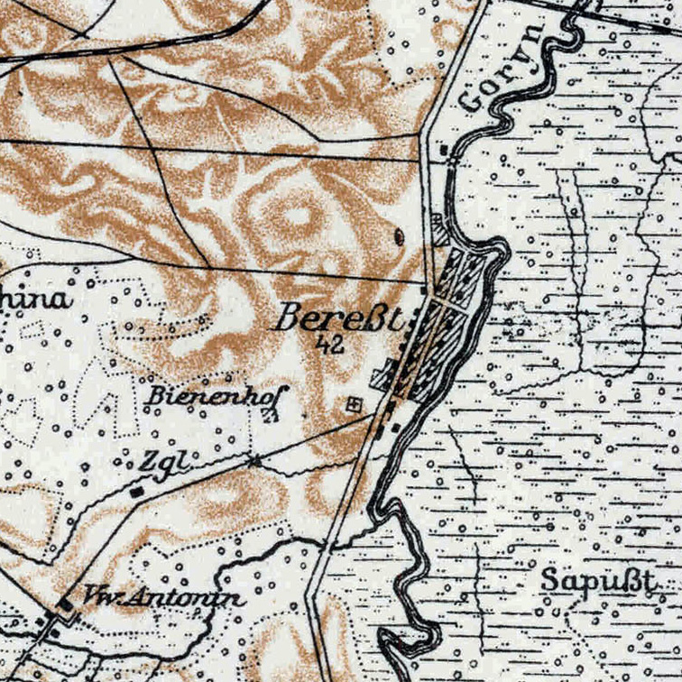 Berestia on the map "Karte des Westlichen Russlands", T 35, 1917. According to Digital Repository of Scientific Institutes and Kujawsko-Pomorska Digital Library the map is in the public domain.